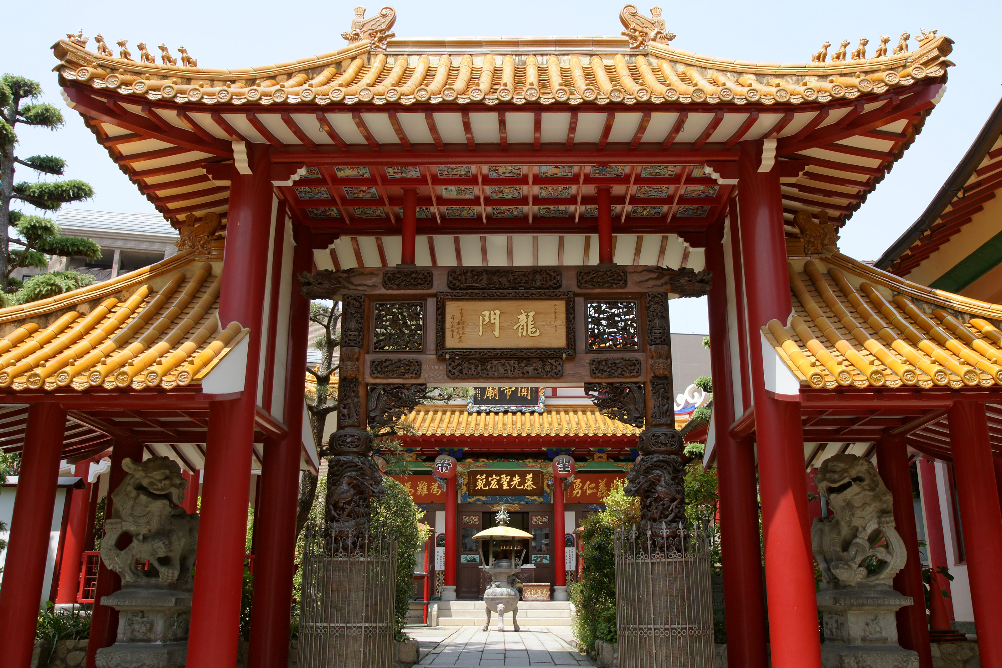 Kanteibyo (Chorakuji) in Kobe, Hyogo prefecture, Japan